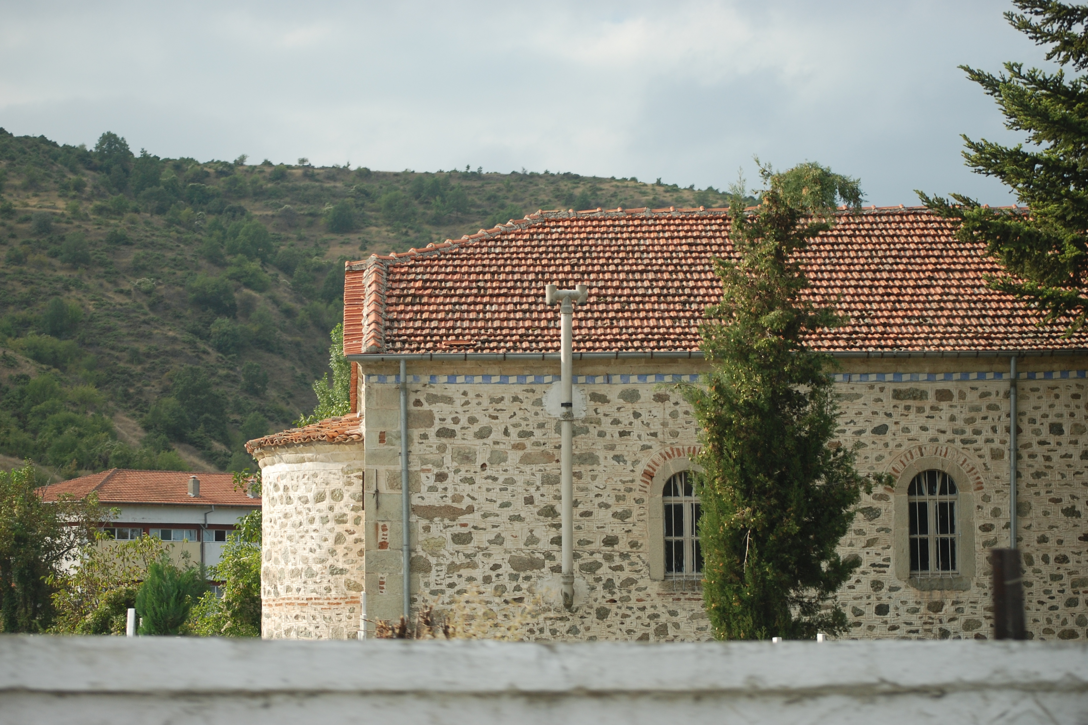 Church in Lemos/Rmbi, Greece